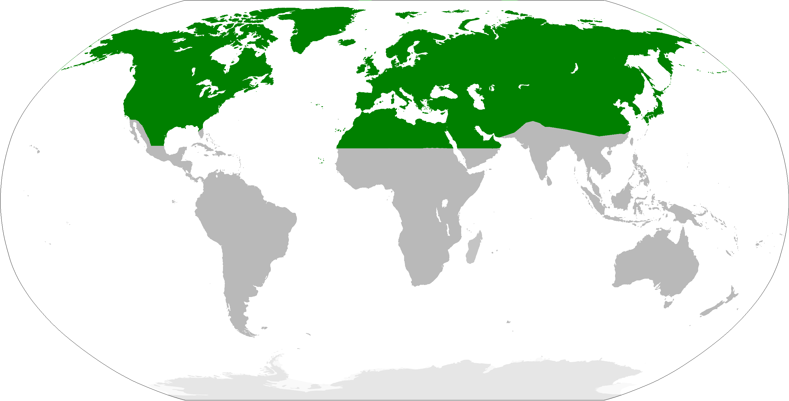 Holoarctic region